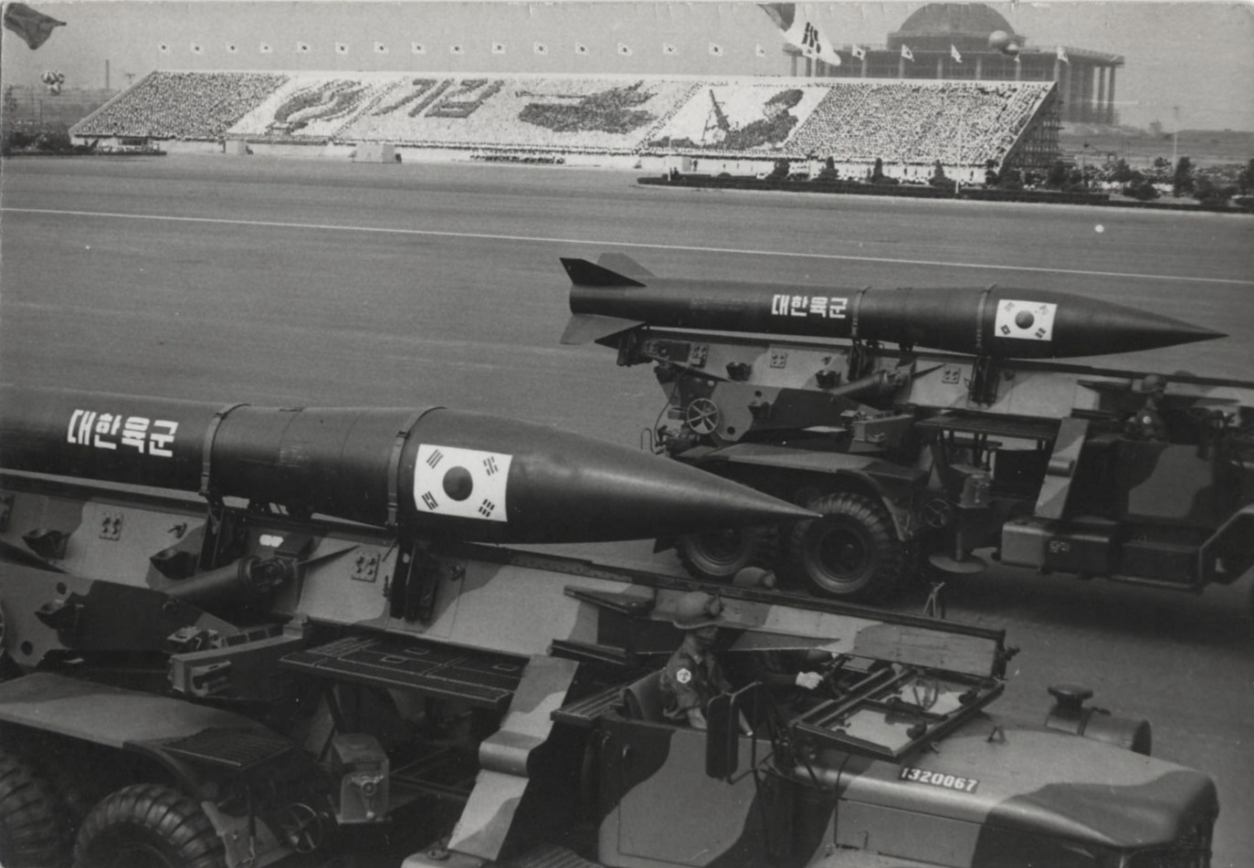 South Korean Army Parade at Armed Forces day in 1973. A couple of MGR-1B rockets are shown.